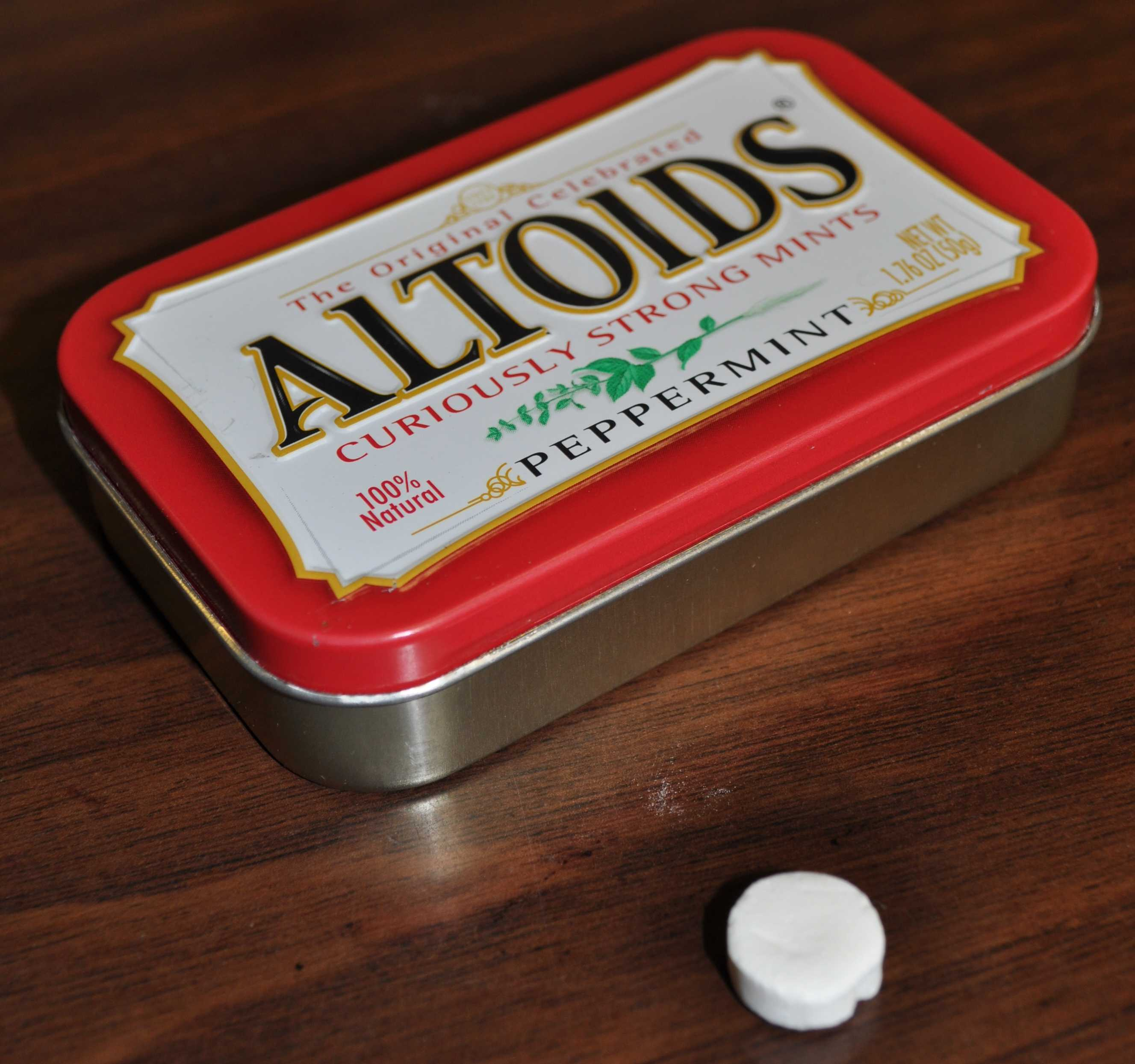 an altoid and its tin